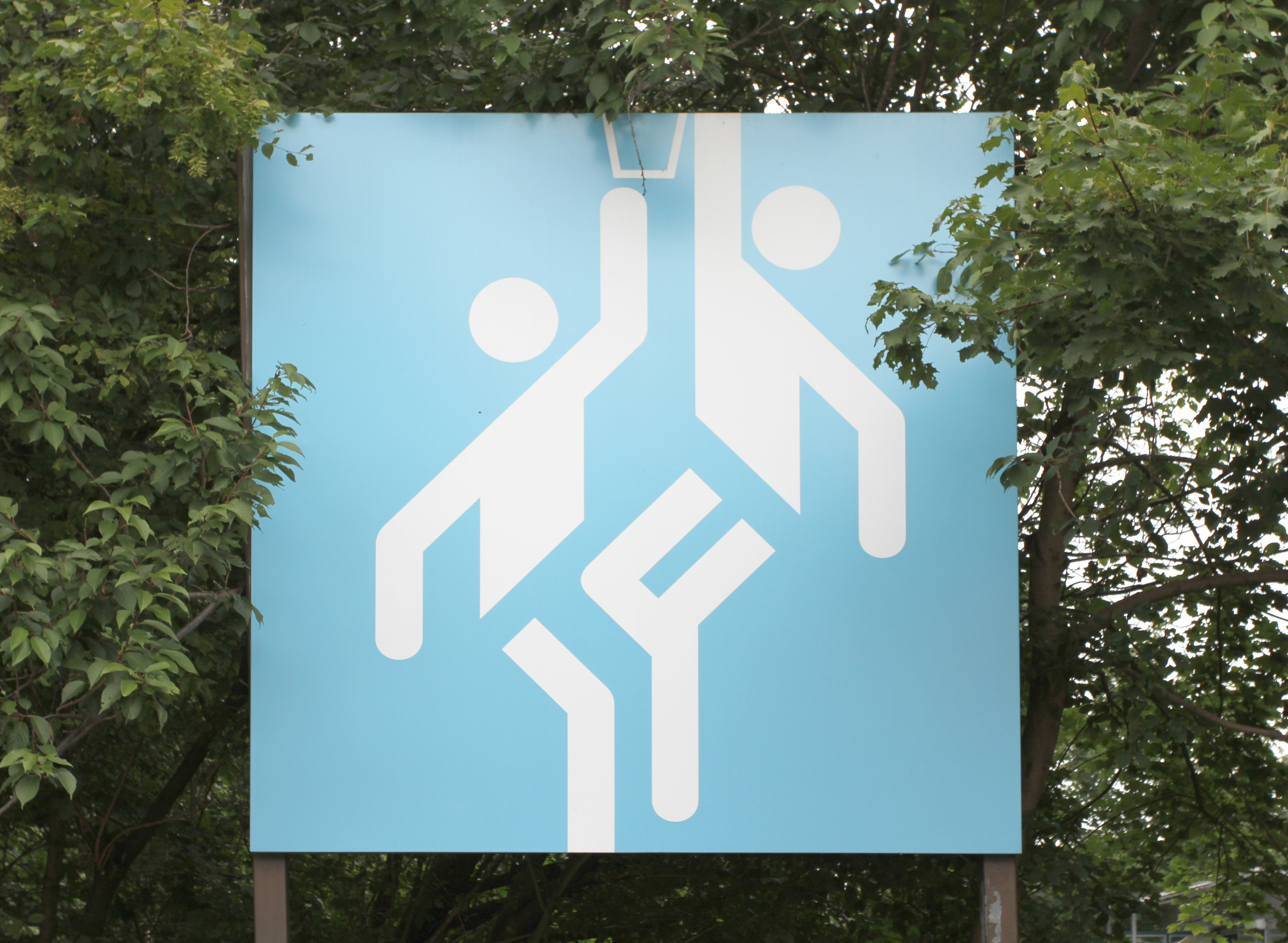 Pictogram of the Olympic Games 1972 in Munich, Germany symbolizing Basketball. Drawn by Otl Aicher, on Display at the Rudi-Seldmyer-Halle, Munich